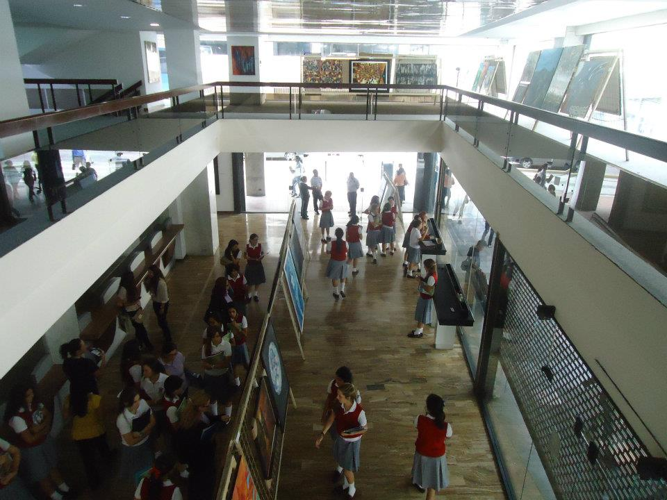 Museo Luis Noboa Naranjo